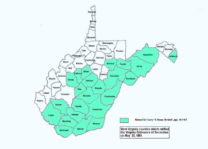 West Virginia Secessionist Counties. See also Image:Wvmapagain.png